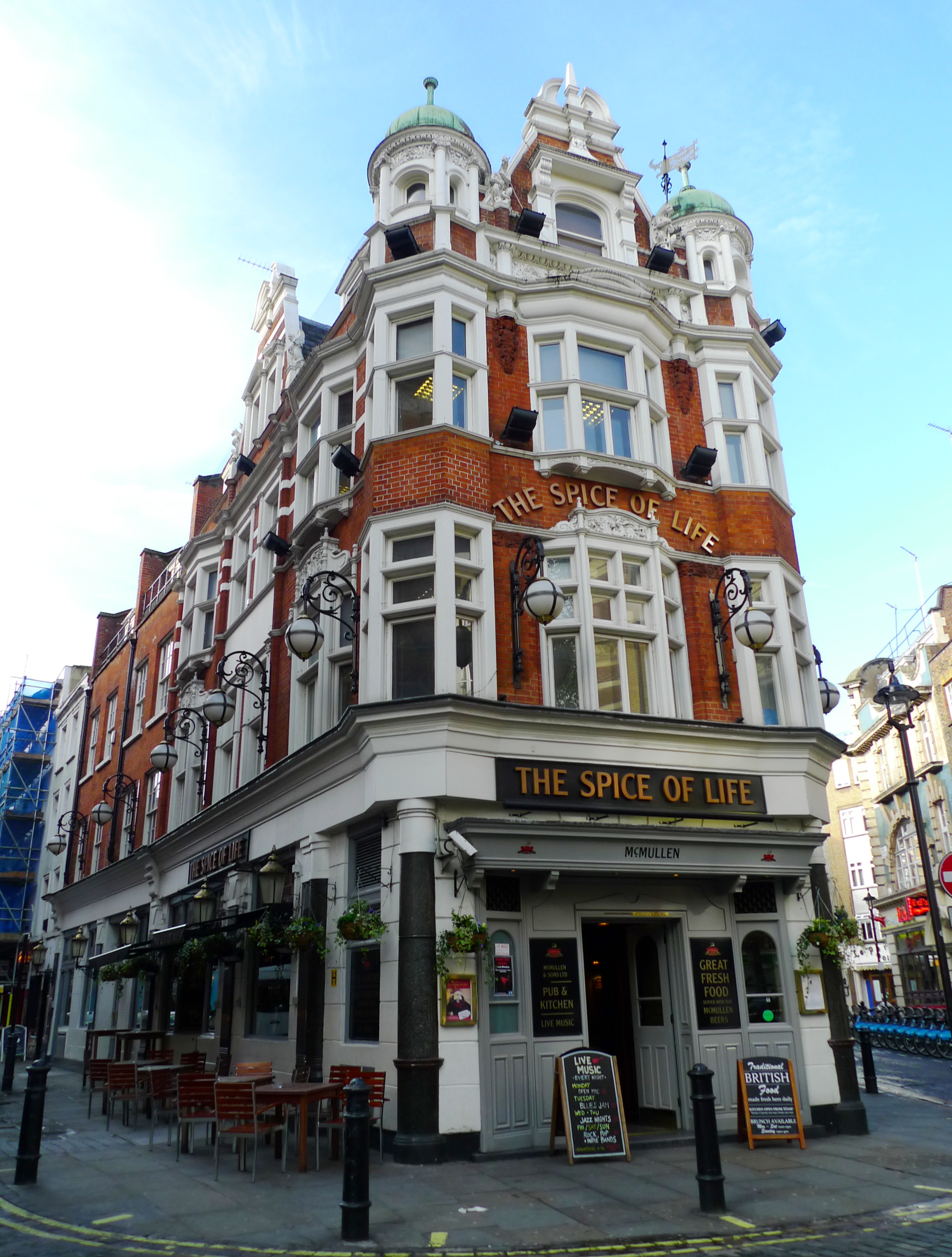 Busy pub/restaurant overlooking Cambridge Circus. ( Older photo of it from the front. ) Address: 37-39 Romilly Street (formerly Church Street, though the original pub The George was on Moor Street). Former Name(s): The Scots Hoose (or Scotch House); The George and Thirteen Cantons; The George (on the same site). Owner: McMullen ( website ); Reid's Brewery (former). Links: London Pubology